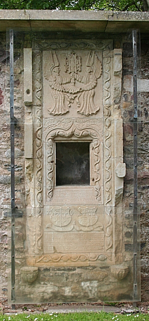 Deskford Kirk This sacrament house is the most important surviving feature of Deskford Kirk. The recess was used to store the consecrated host. The sacrament house was gifted to the kirk by Alexander Ogilvie and his wife Elizabeth Gordon in 1551, whose arms are carved above an inscription below the recess. Above the recess are two angels holding a monstrance.